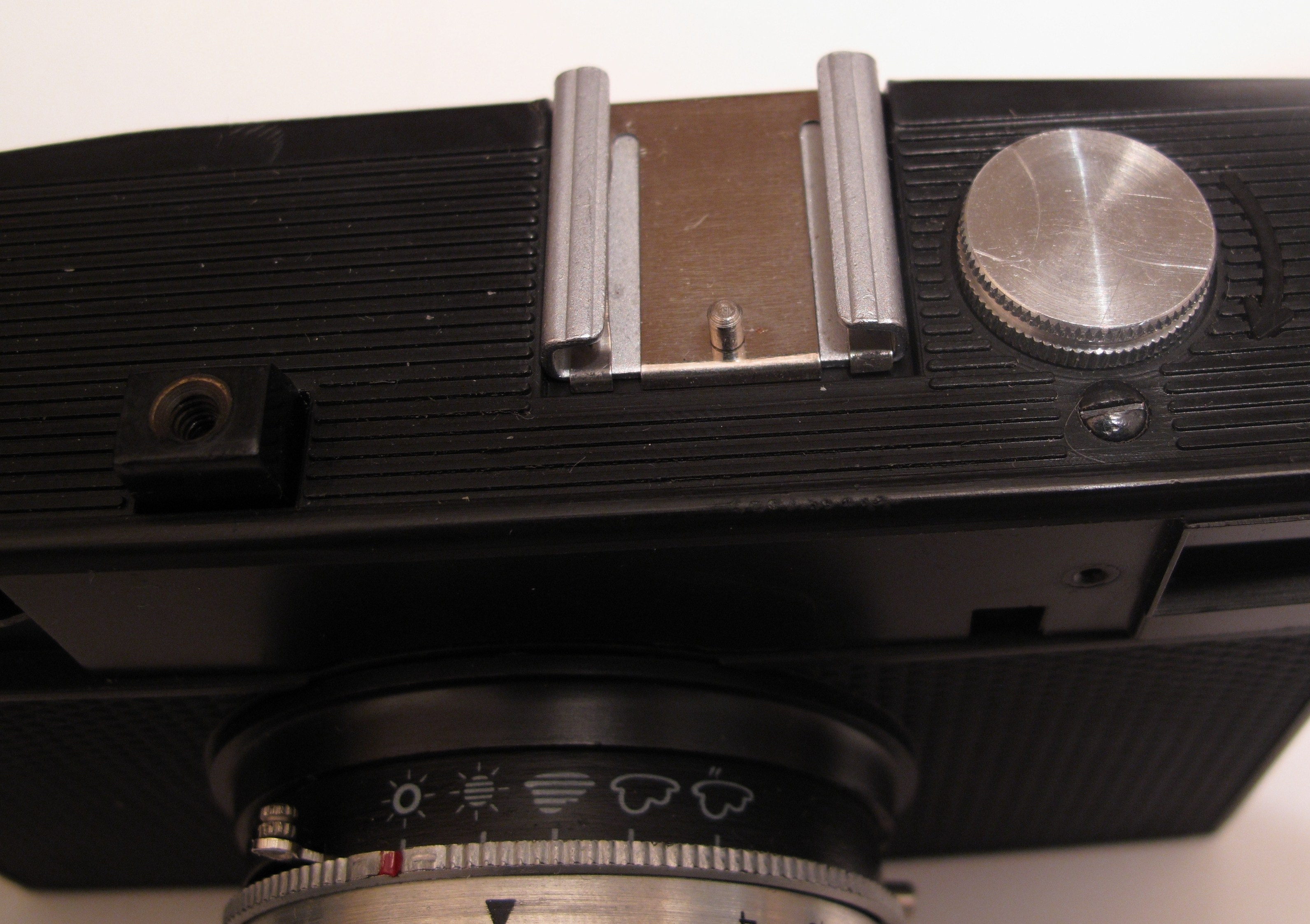 The shoe for flach with mechanical synchronizer from camera Smena-8M.